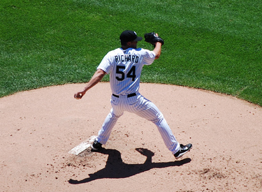 Clayton Richard delivers a pitch during his MLB debut.